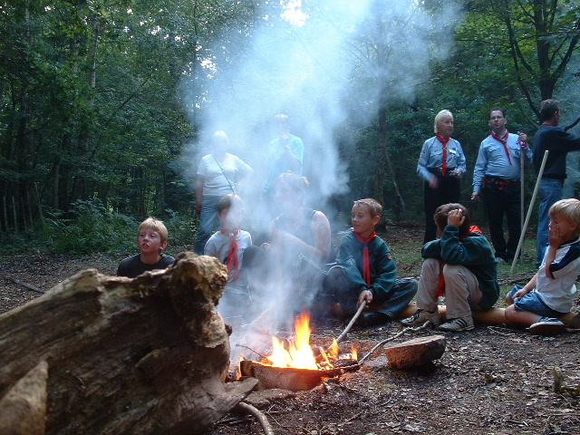 Angmering Woodland. This ancient woodland, on the Western side of the gridsquare is ideal for old fashioned scouting.